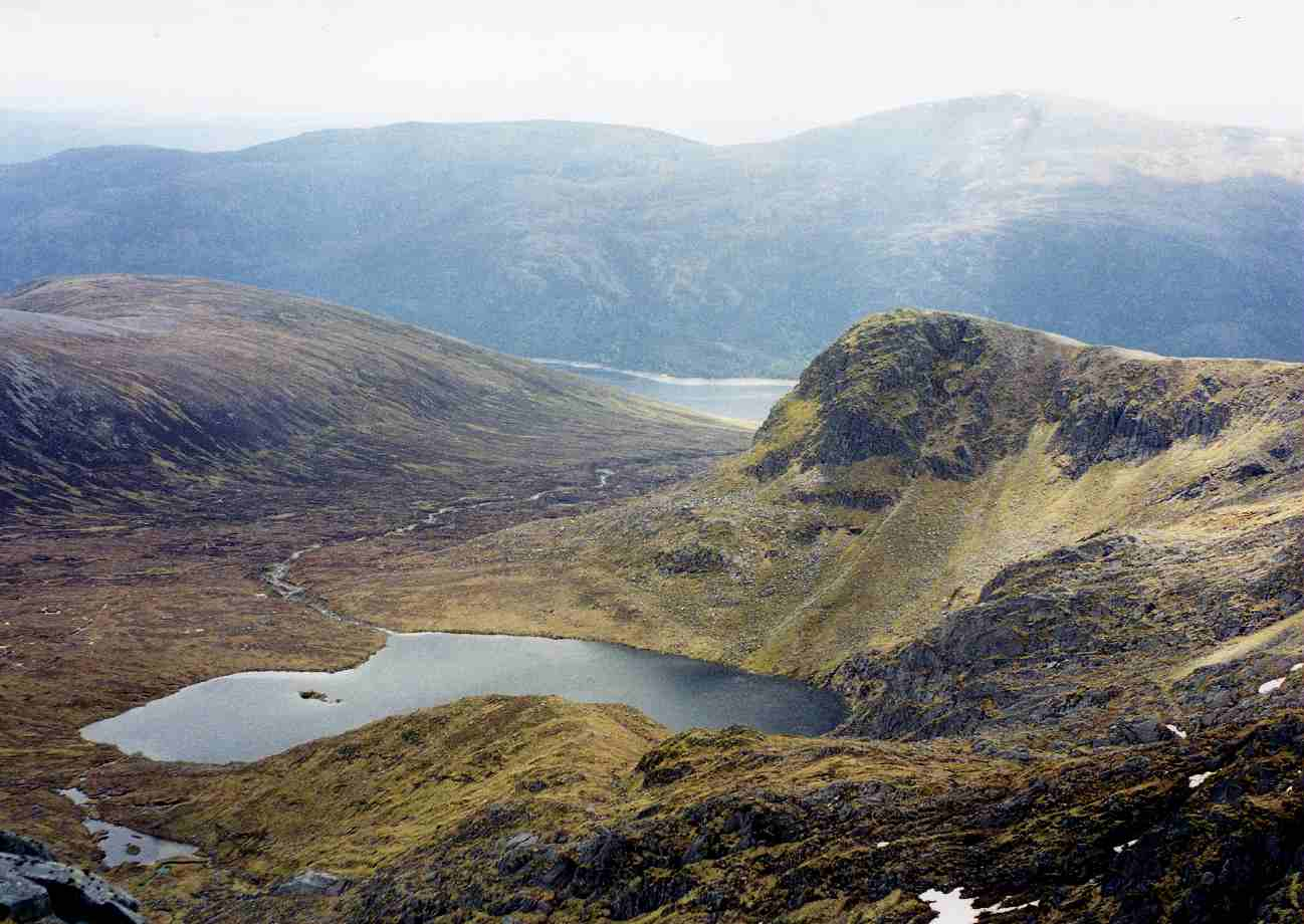 Looking south-east from the summit over Loch Tuill Bhearnach with Loch Mullardoch in the far valley. Personal photo taken by Mick Knapton